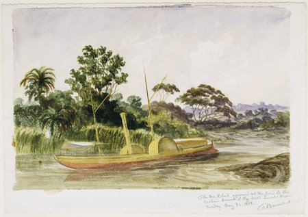 The Ma Robert aground at the head of the eastern branch of the West Luabo river during the Zambesi Expedition by Thomas Baines, 1861. © Royal Geographical Society